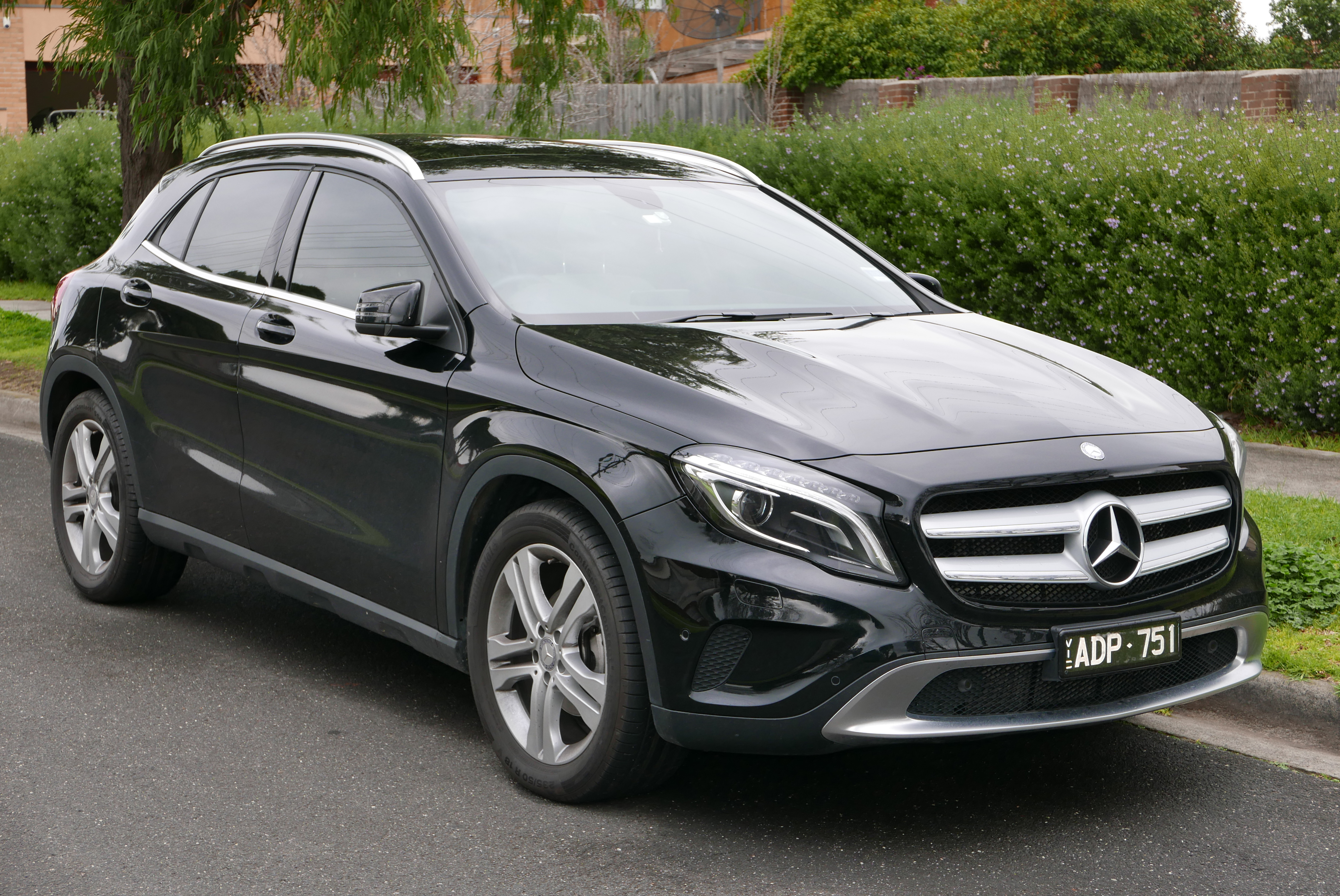 2014 Mercedes-Benz GLA 200 CDI (X 156) wagon. Despite the date discrepancy between the description and the vehicle registration information below, a check of the VIN reveals a "delivery date" of 25 November 2014. Photographed in Doncaster, Victoria, Australia. Vehicle registration enquiry resultsJurisdictionVictoriaRegistrationADP751Chassis codeWDC1569082J088348Engine code65193032589705Compliance date2015-01Year of manufacture2015